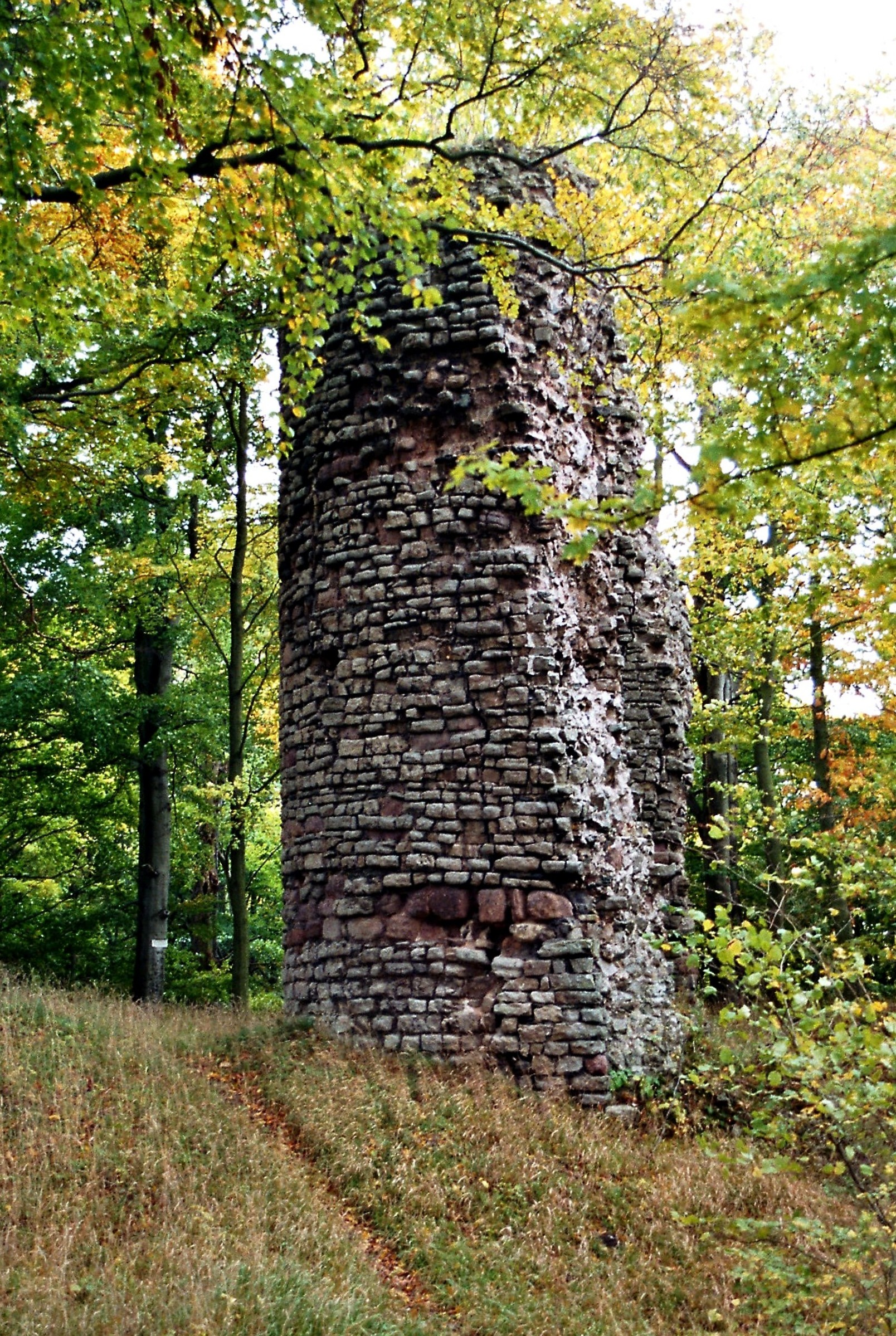 Morungen (Sangerhausen), the ruined castle Neu-Morungen This is a photograph of an architectural monument. 84922